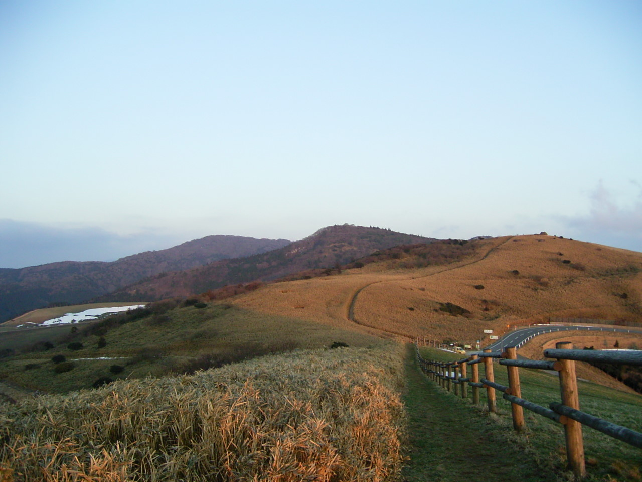 Nishina Pass as seen from the sorthwest in the border between Izu and Nishiizu, Shizuoka Prefecture. Japan.